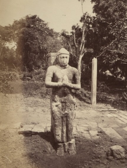 Anuradhapura. The Ruwanweli Dágoba. Stone statue of King Bathikabhaya facing the Dágoba, 8 feet high.This ascended the throne B.C. 20, and was reigning in Anurádhapura at the time of Lord Jesus Christ.